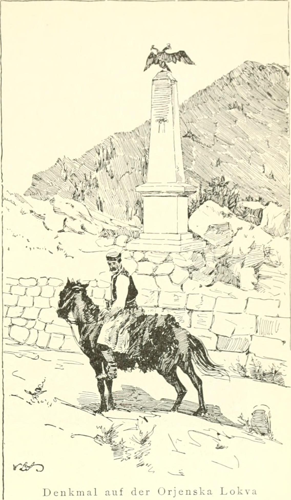 Monument for Archduke Rudolf on Orjen (cf 1888)